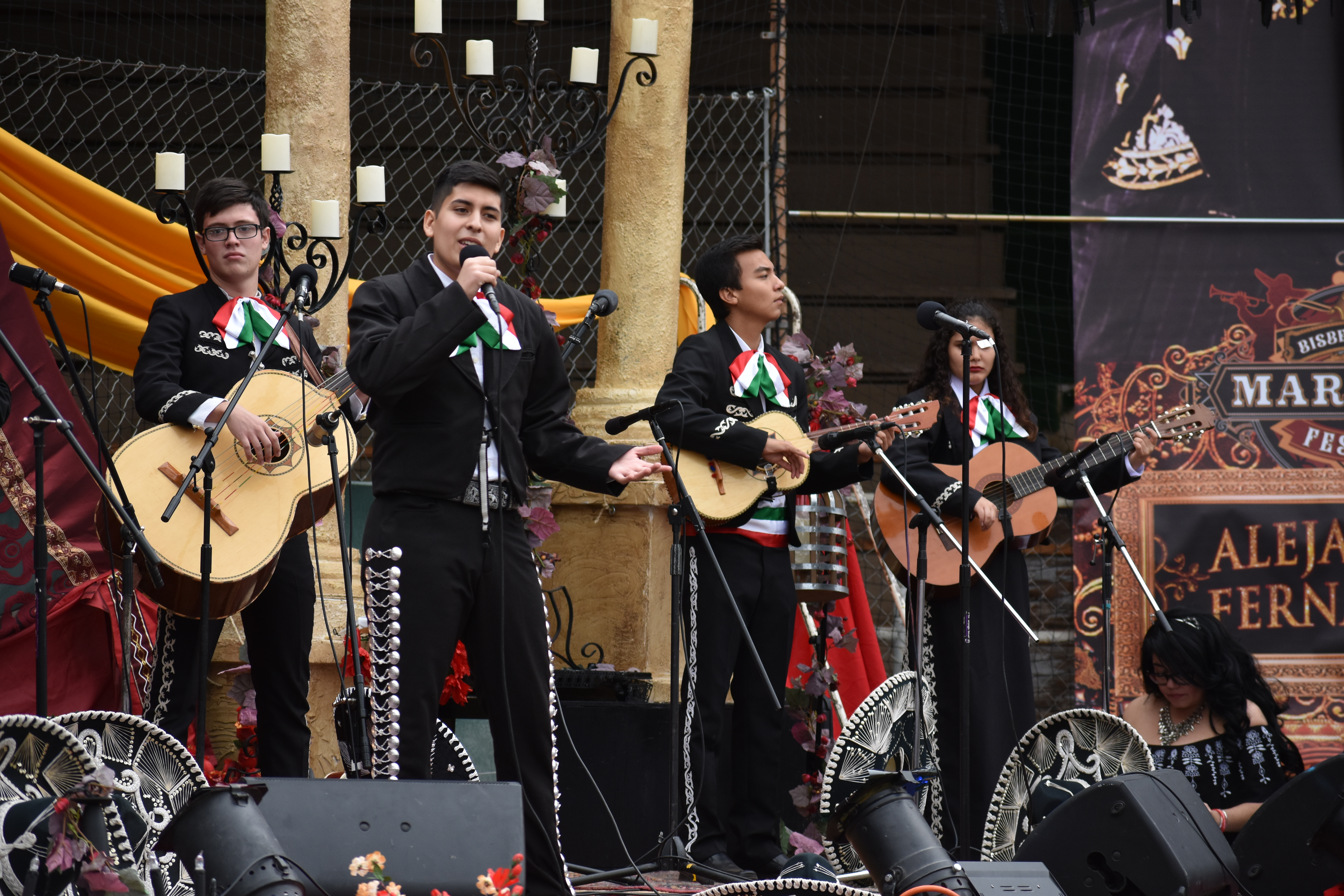 Bisbee Mariachi Festival Car Show - 11/04/17 Warren Ballpark Mariachi Alma Joven